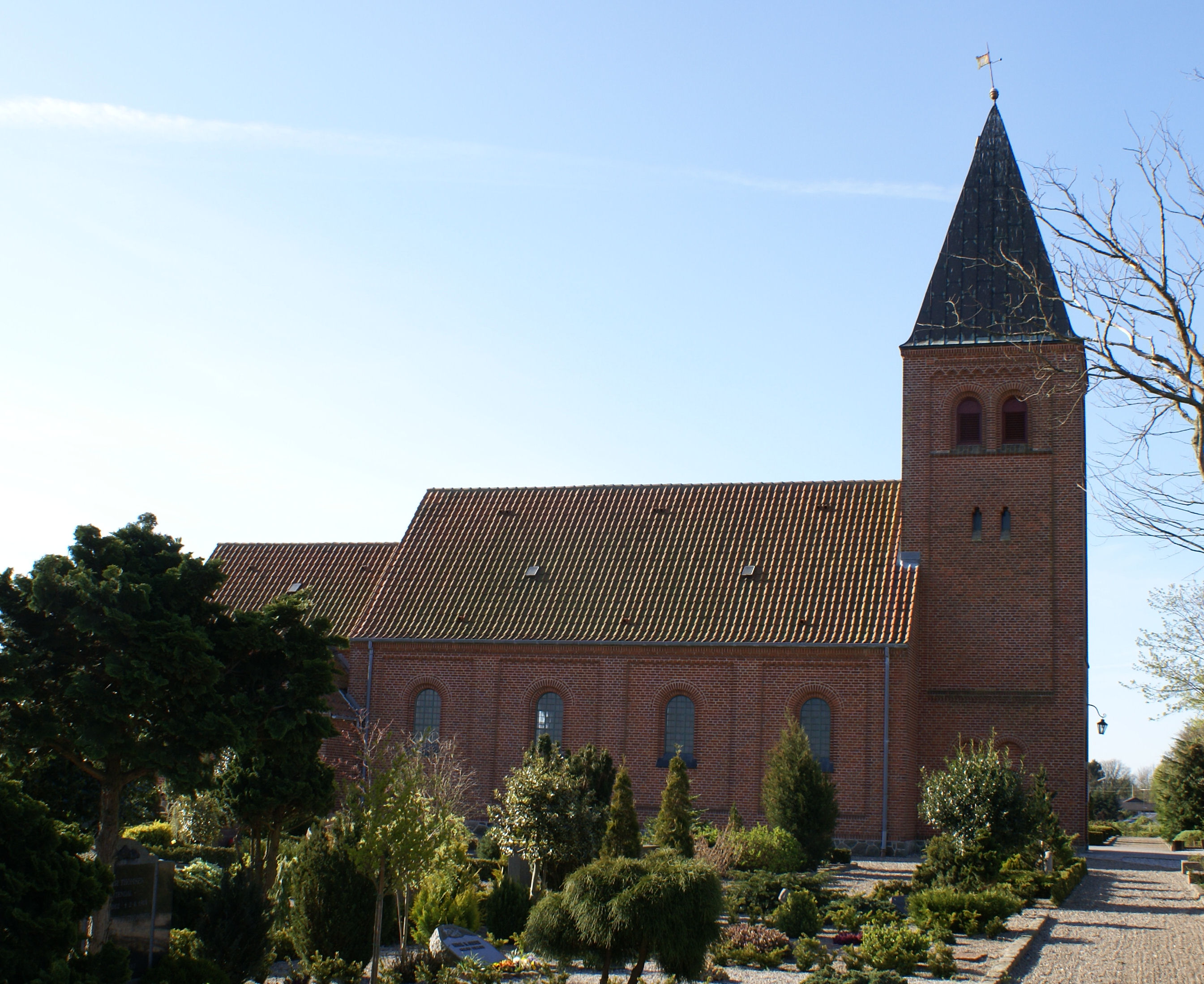 Agersted Church, Diocese of Aalborg